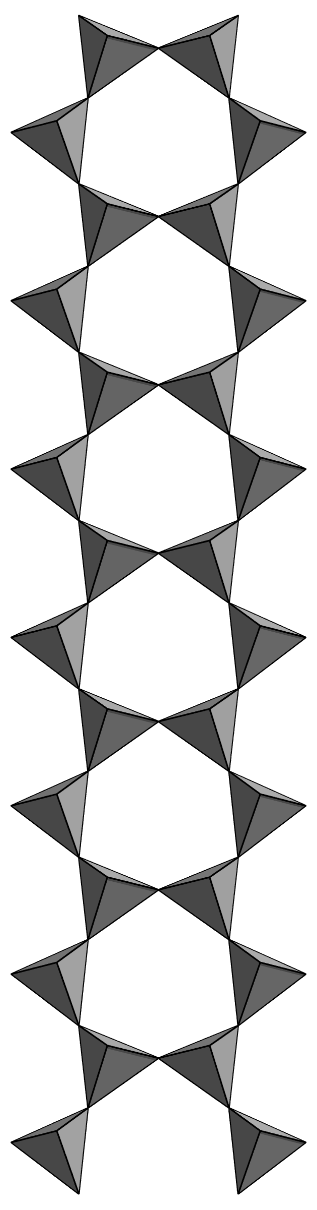 Unbranched zweier double chain of amphibole (Tremolite) Data from: Yang, H.; Evans, B. W.(1996): X-ray structure refinements of tremolite at 140 and 295 K: Crystal chemistry and petrologic implications, American Mineralogist 81, pp. 1117-1125 Calculation of image data: Larry W. Finger, Martin Kroeker, and Brian H. Toby, DRAWxtl, an open-source computer program to produce crystal-structure drawings, J. Applied Crystallography V40, pp. 188-192, 2007 Rendering: POVRAY